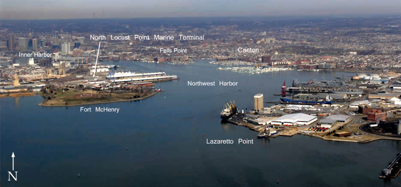 words added, cropped, colors releveled, p.367 of Chapter 15 Baltimore to Head of Chesapeake Bay, Coast Pilot 3, 40th Edition, 2007, Office of Coastal Survey, NOAA.